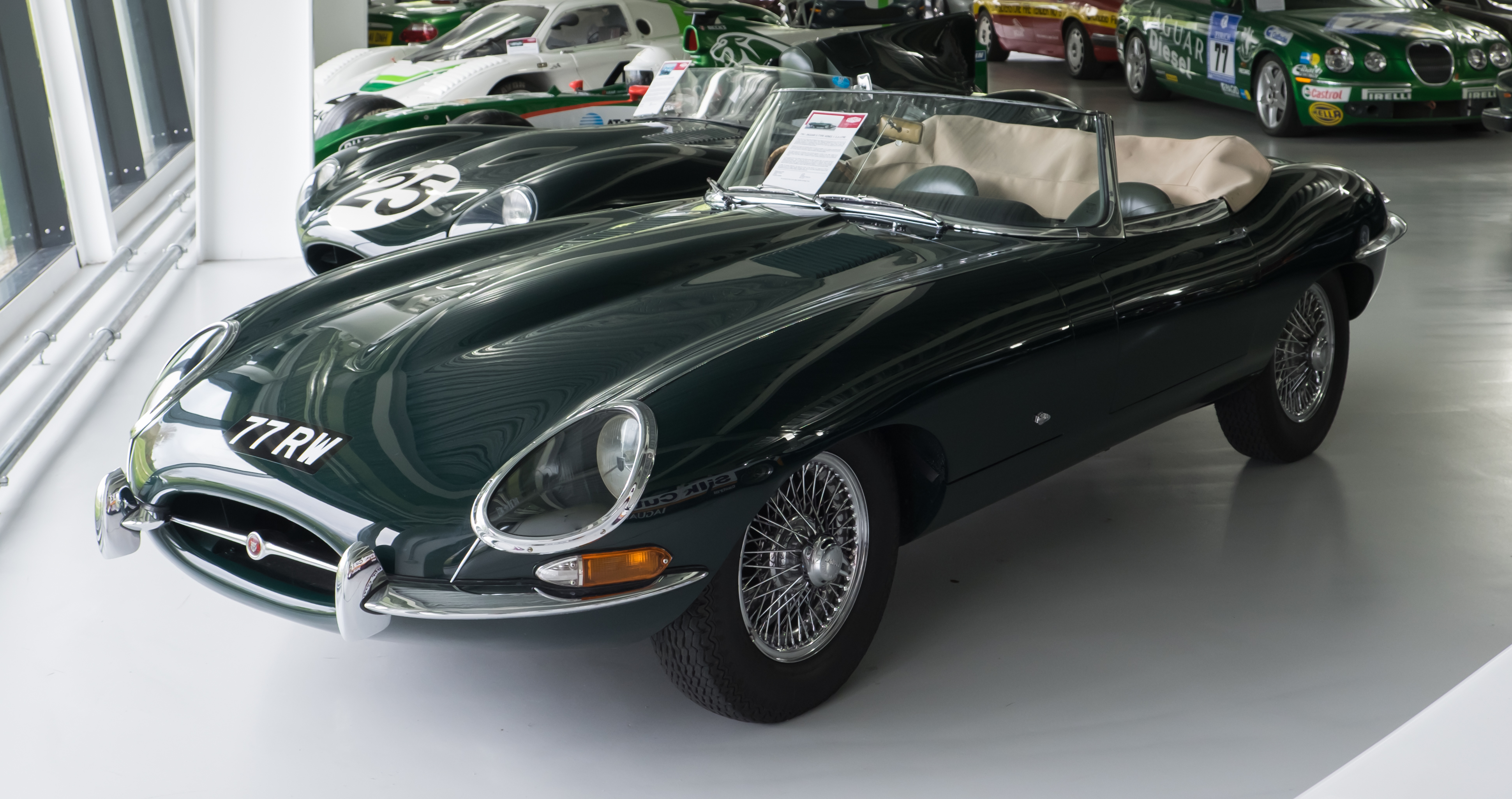 A 1961 Jaguar E-Type Series 1 3.8 Litre. This one is the first production open two-seater and is on permanent loan to the Jaguar Heritage Collection at the British Motor Museum.